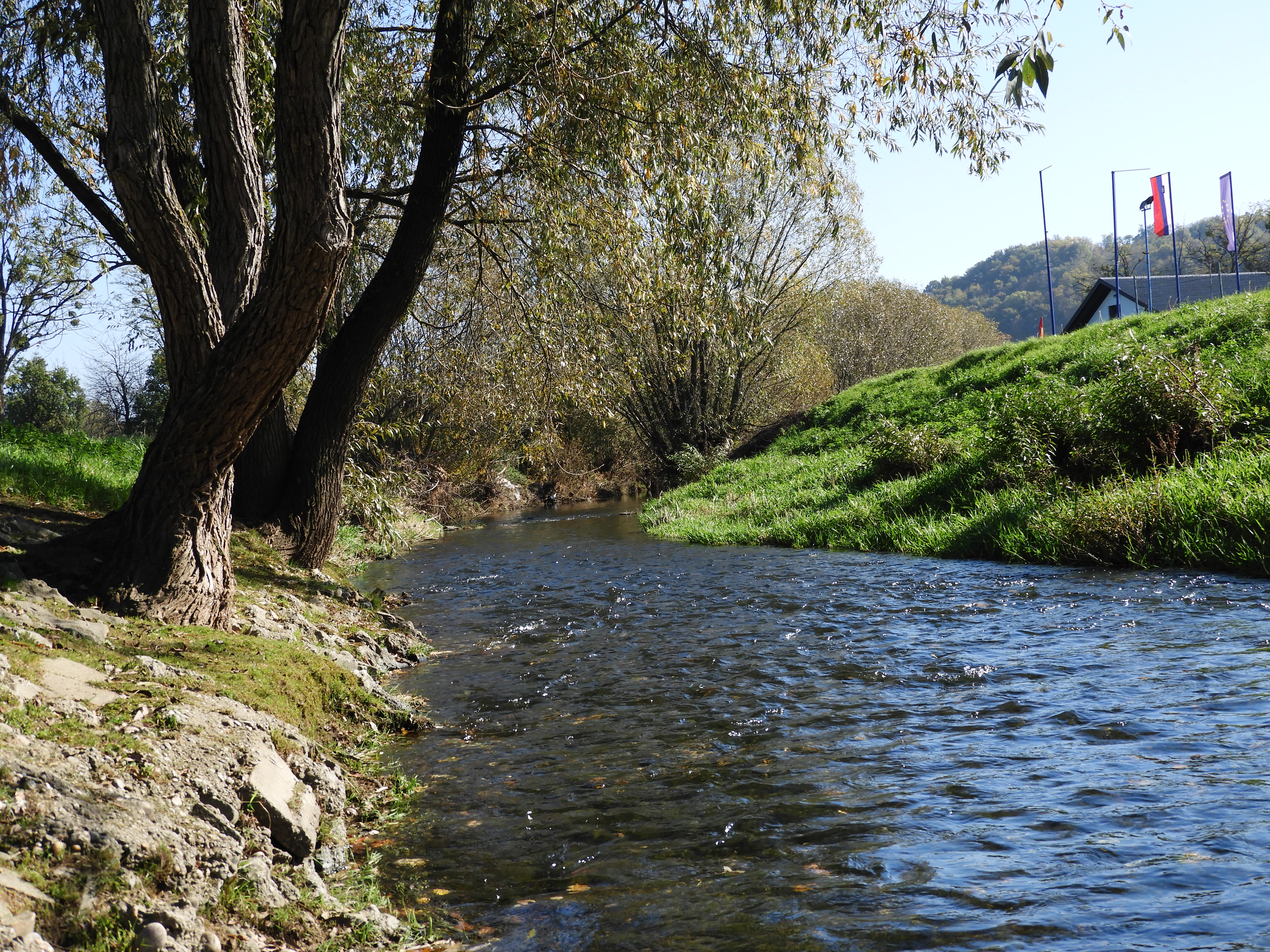 Downstream view of Polskava River in the village of Tržec